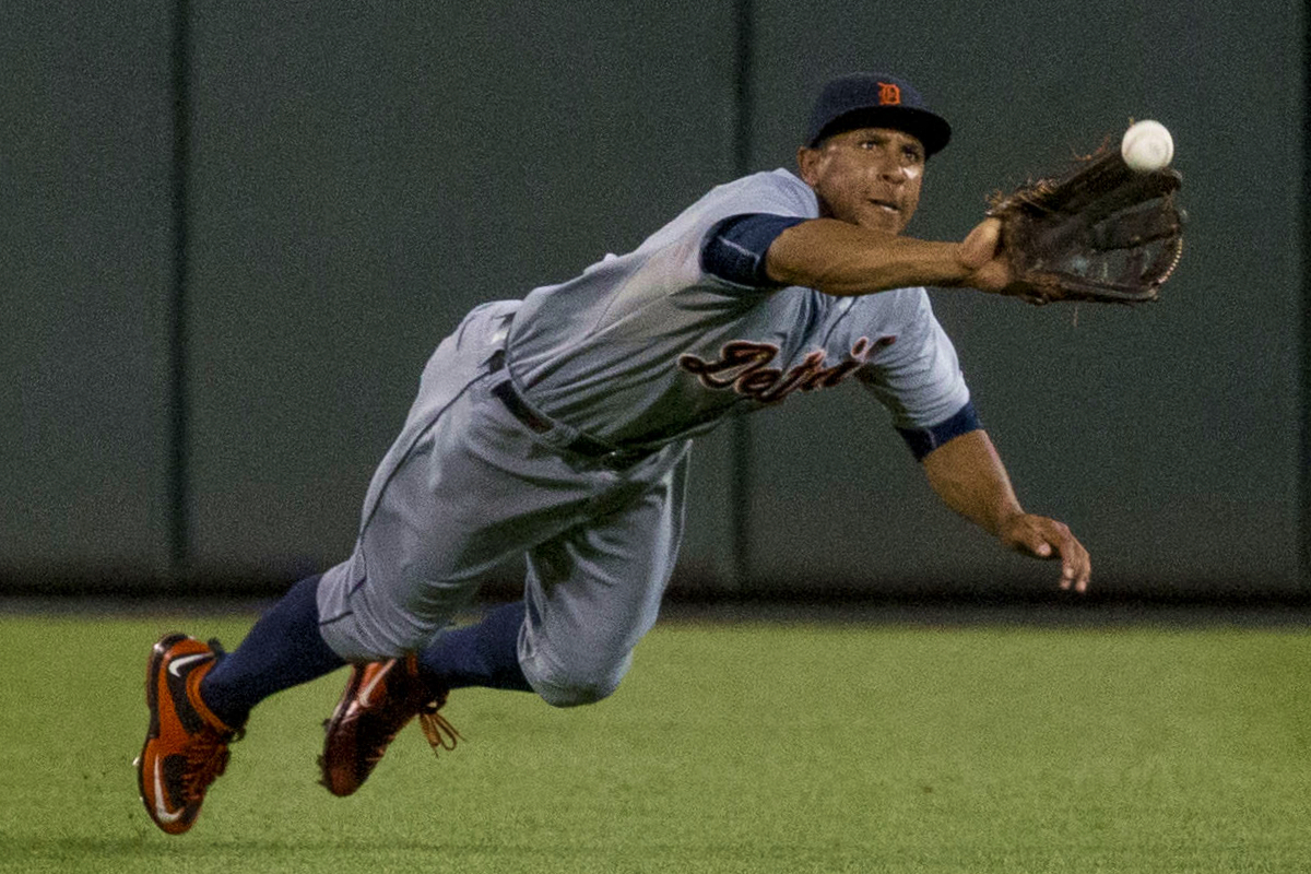 Anthony Gose